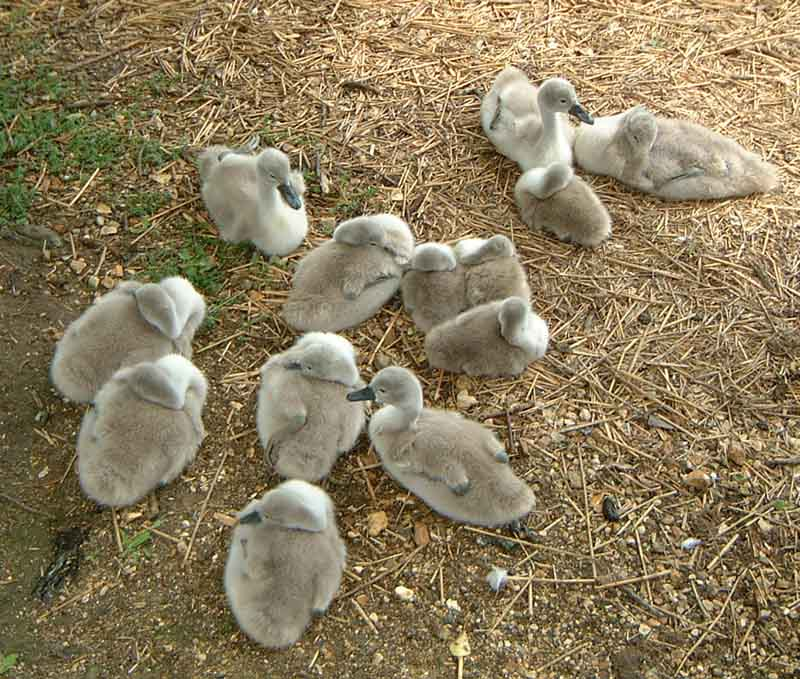 Personal photograph taken by Mick Knapton on June 26th 2005.